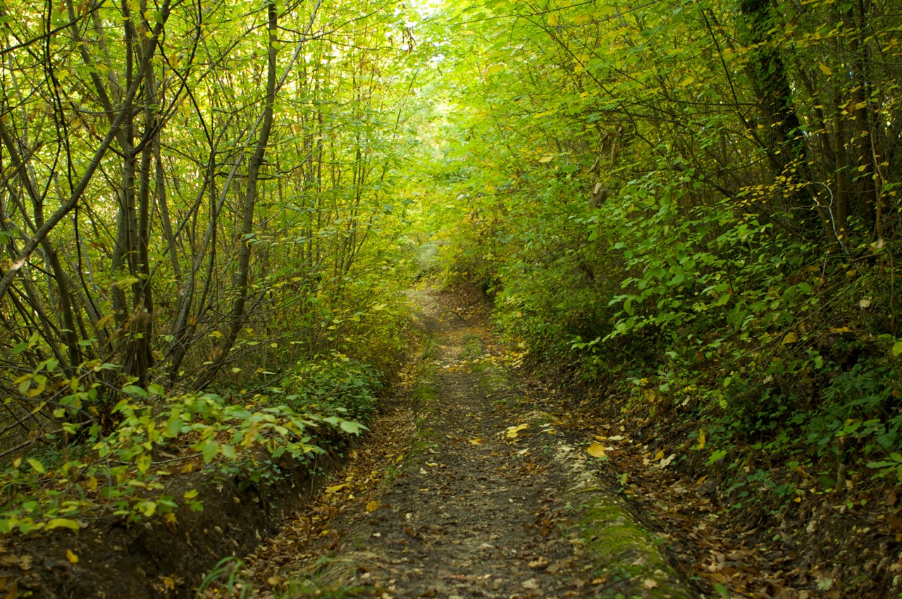 The greenwood on La foresta hill, just outside Rieti (Lazio, Italy), near the franciscan sanctuary of La Foresta and the village of Castelfranco